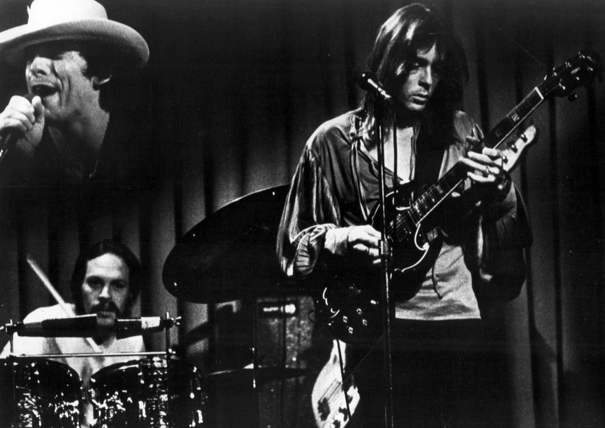 1972 photo of Quicksilver Messenger Service. Left top-Dino Valenti, drums-Greg Elmore, guitar-Gary Duncan.